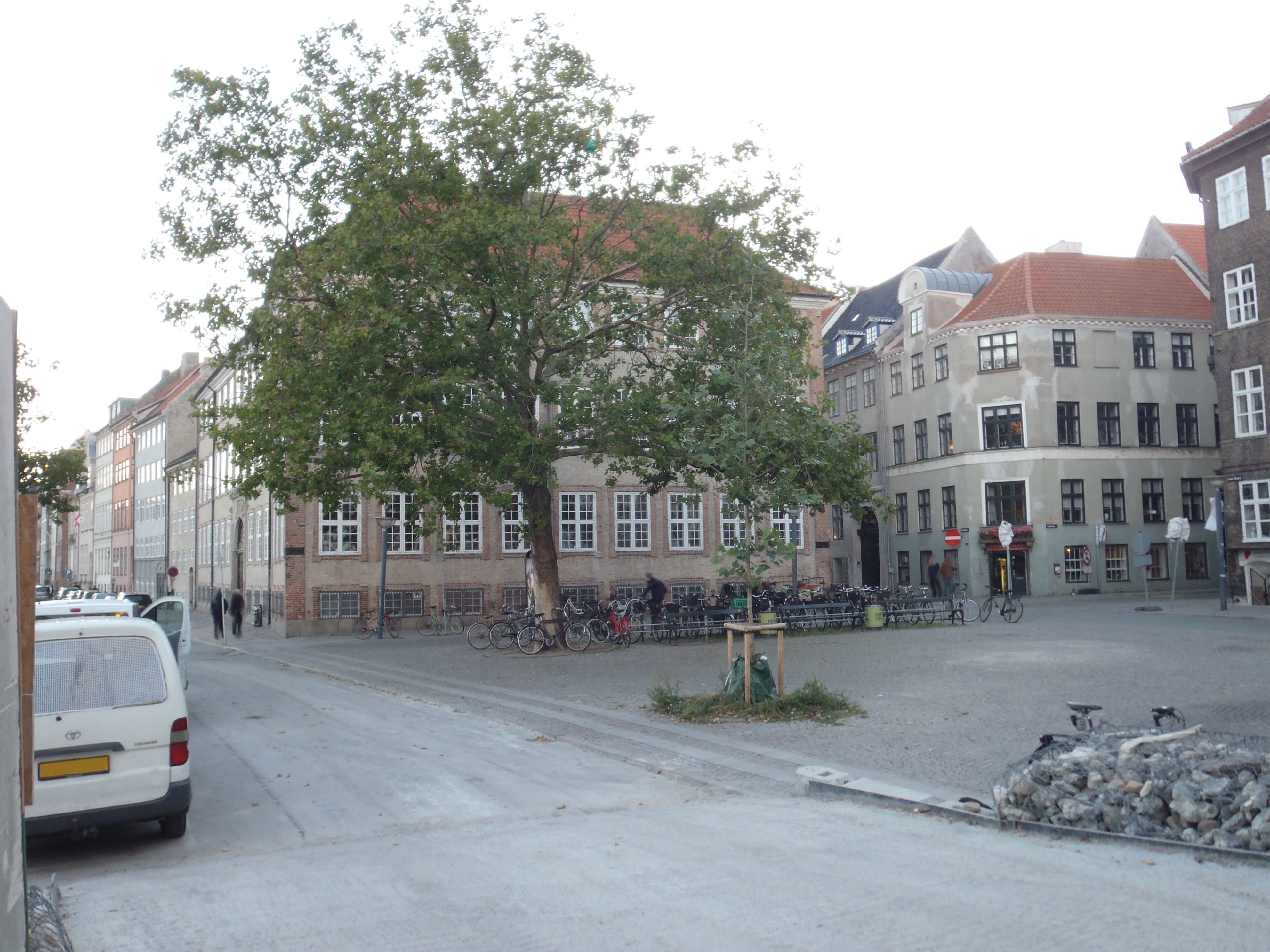 Photography from a square at Gammelstrand. It has been tried to set the station point at the same location as an old photograph.